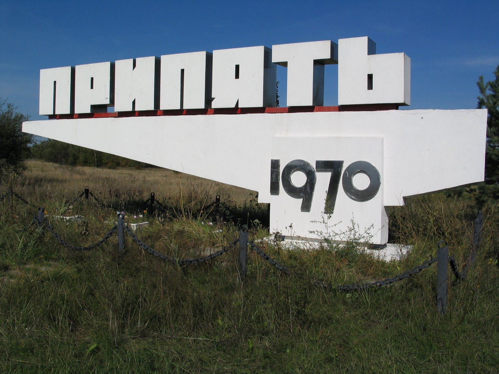 City limit sign of Pripyat.